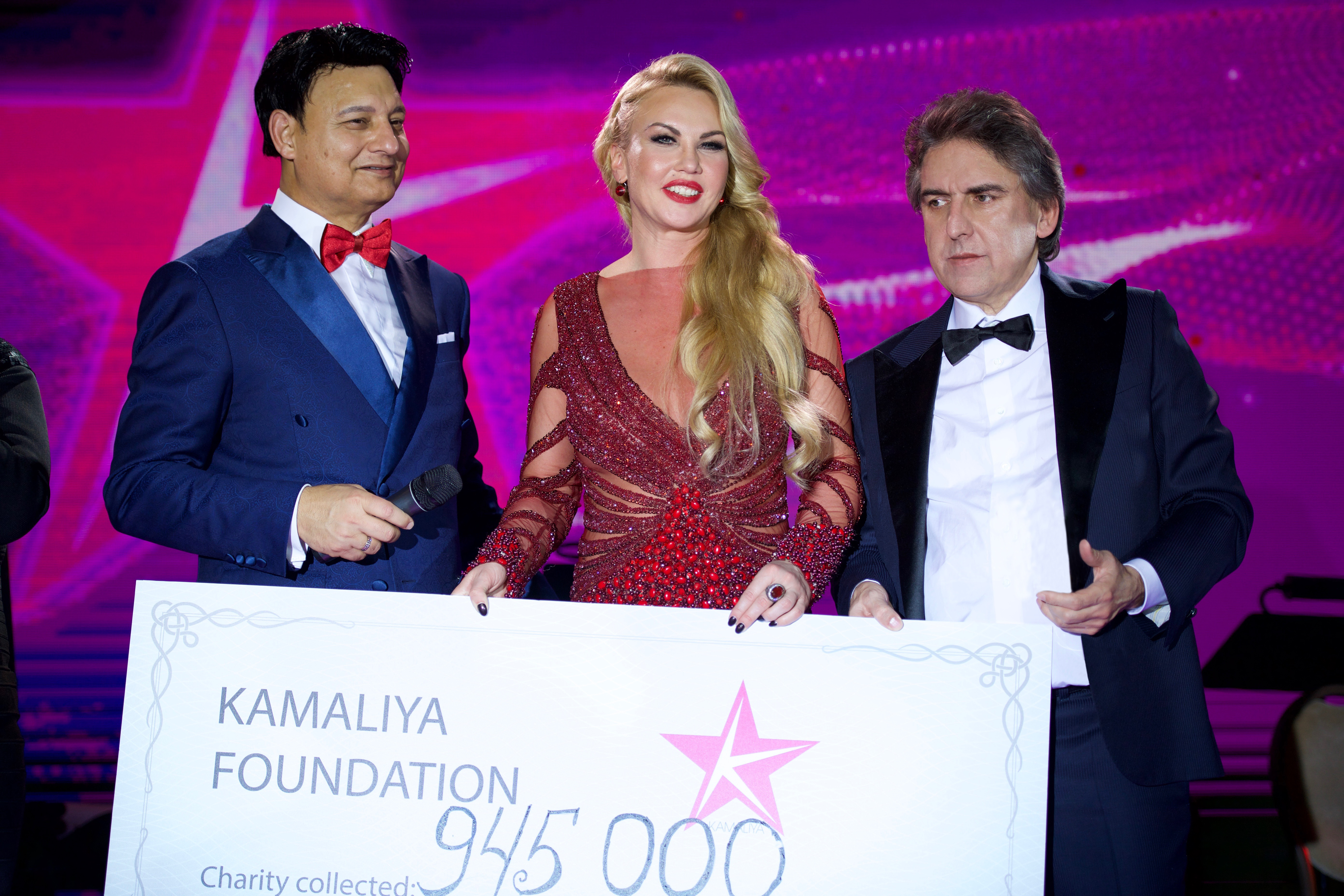 At the 4th St. Nicholas Charity night organized by Kamaliya Foundation